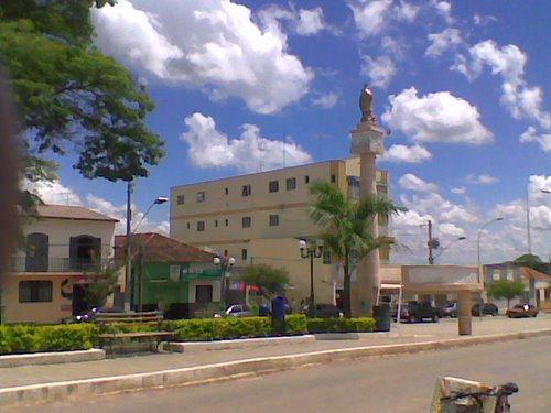 Centro de Bom Sucesso